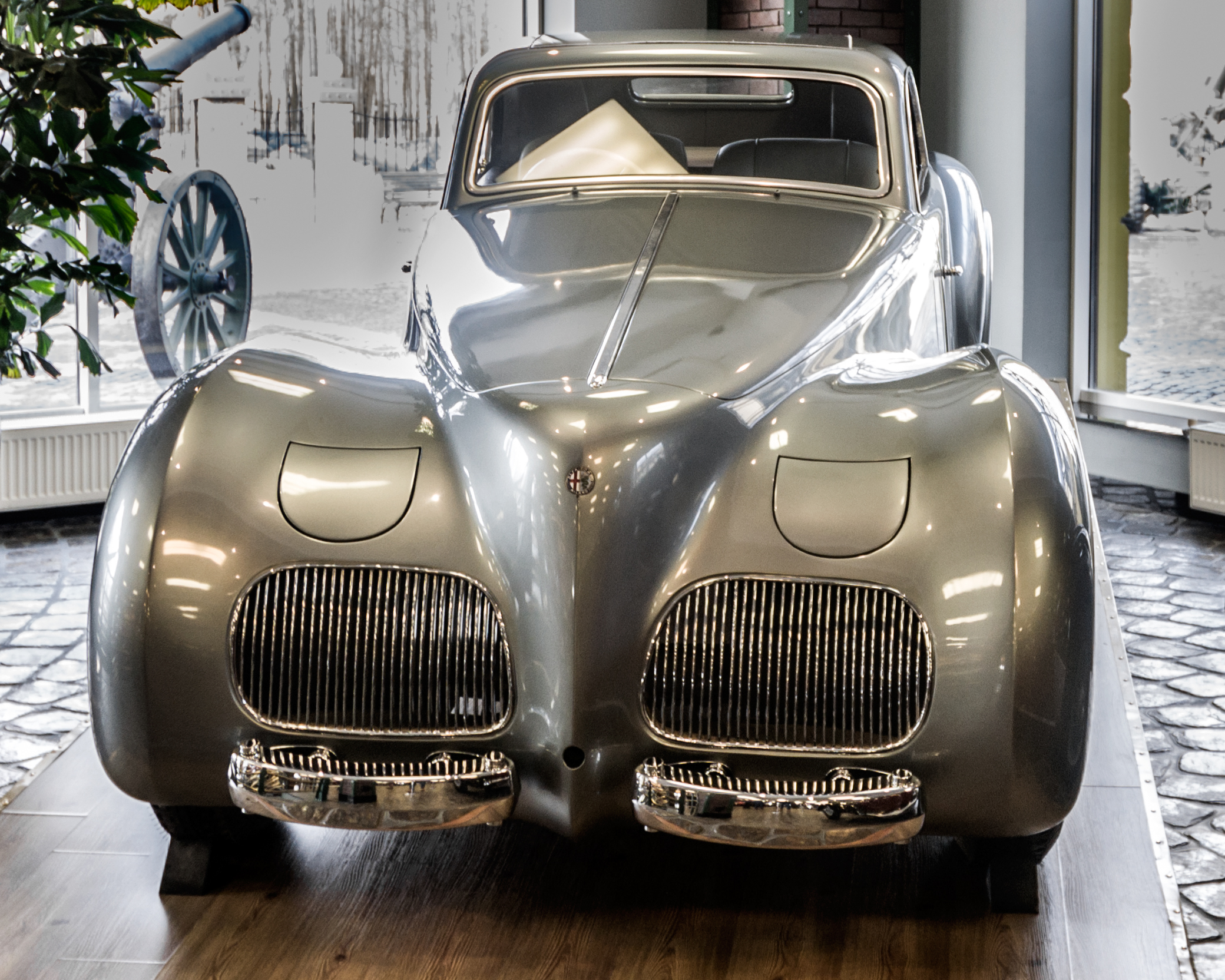 Alfa Romeo 6C 2500 SS. Designed by Pinin Farina for Giuseppe Farina (s/n 913.008), 1939. Technical museum of Vadim Zadorozhny collection.